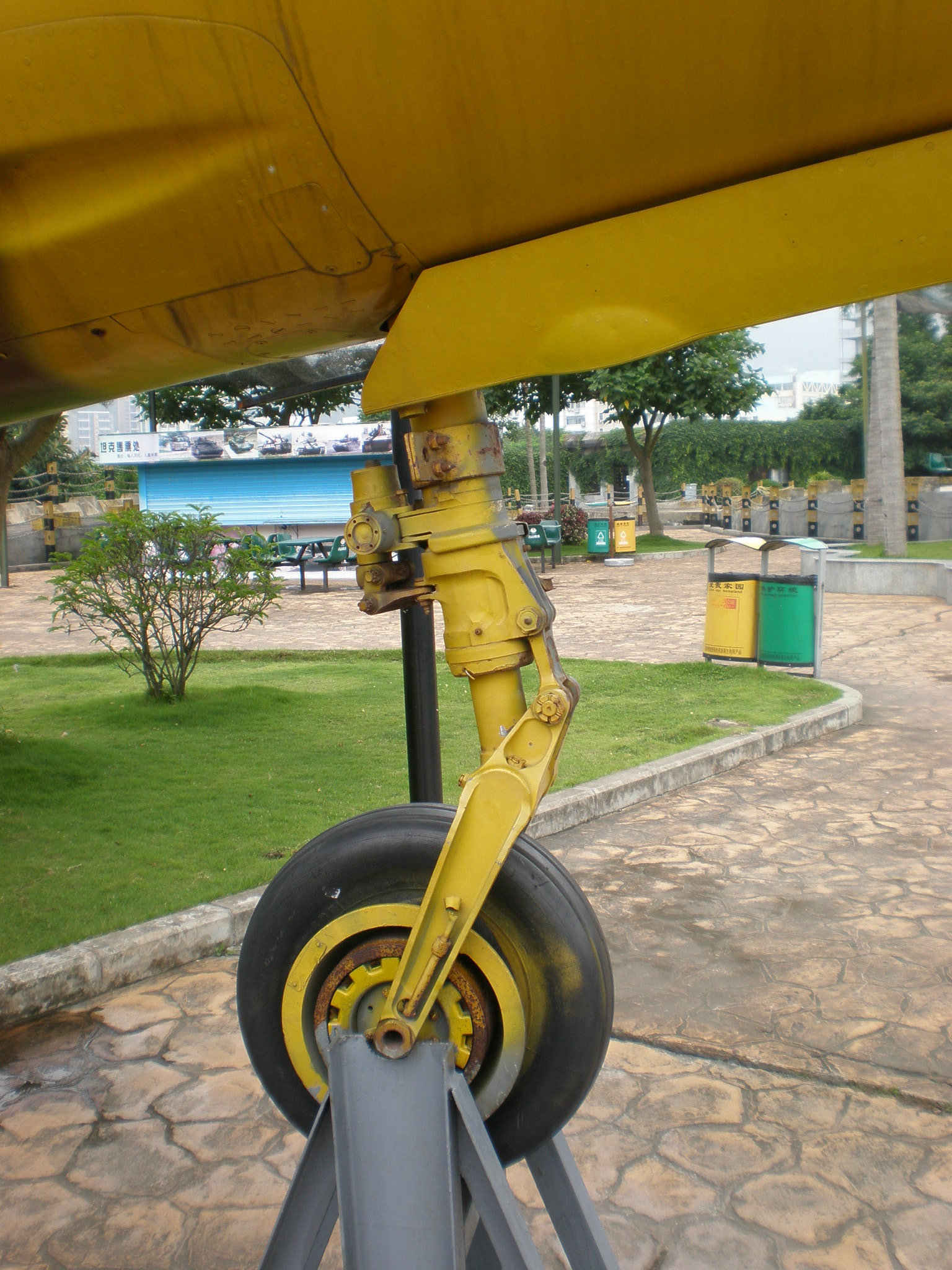 The forward landing gear of a Chengdu J-7 on display at the Minsk World theme park in Shenzhen, PRC.